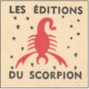 Logo of the French Publisher Editions Du Scorpion 1947